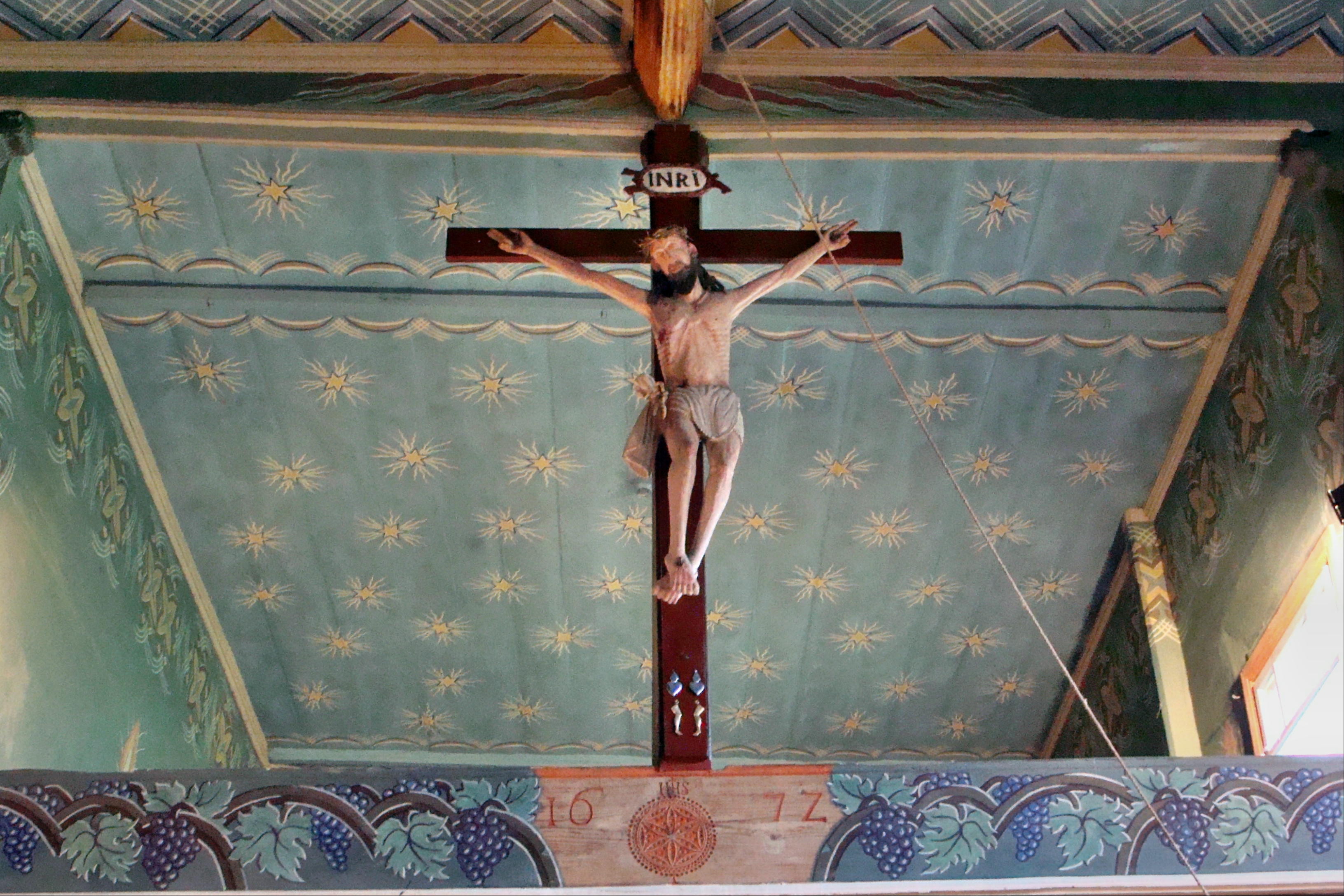 Ornamentats inside the church